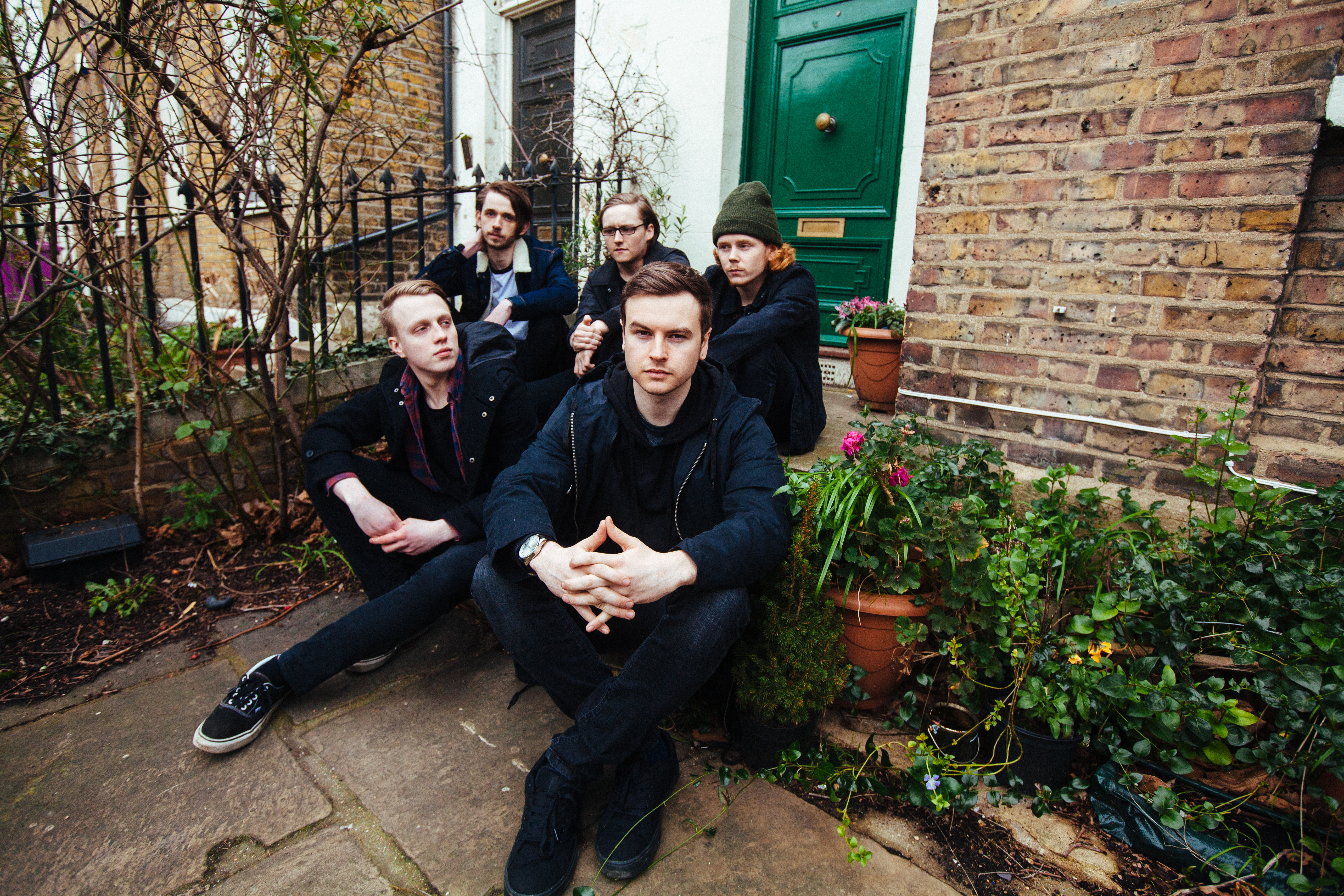 Photo of the UK band Milestones from 2016